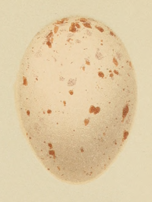 Eggs of Rallus aquaticus